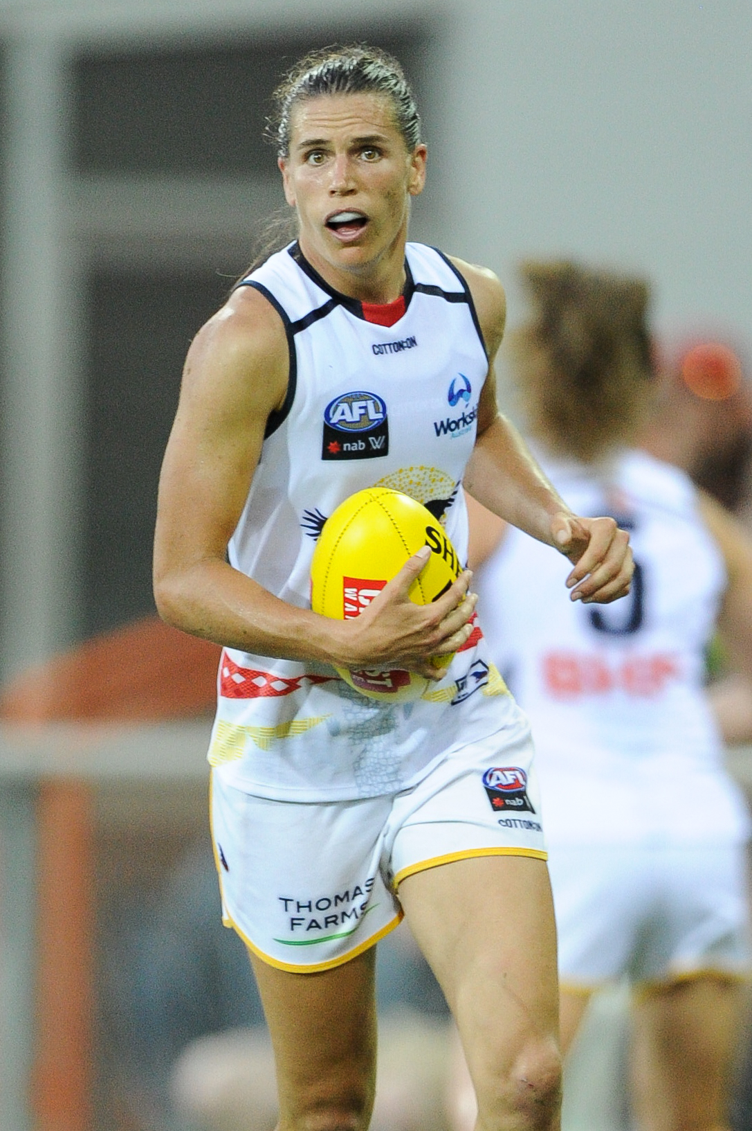 Chelsea Randal in March 2018